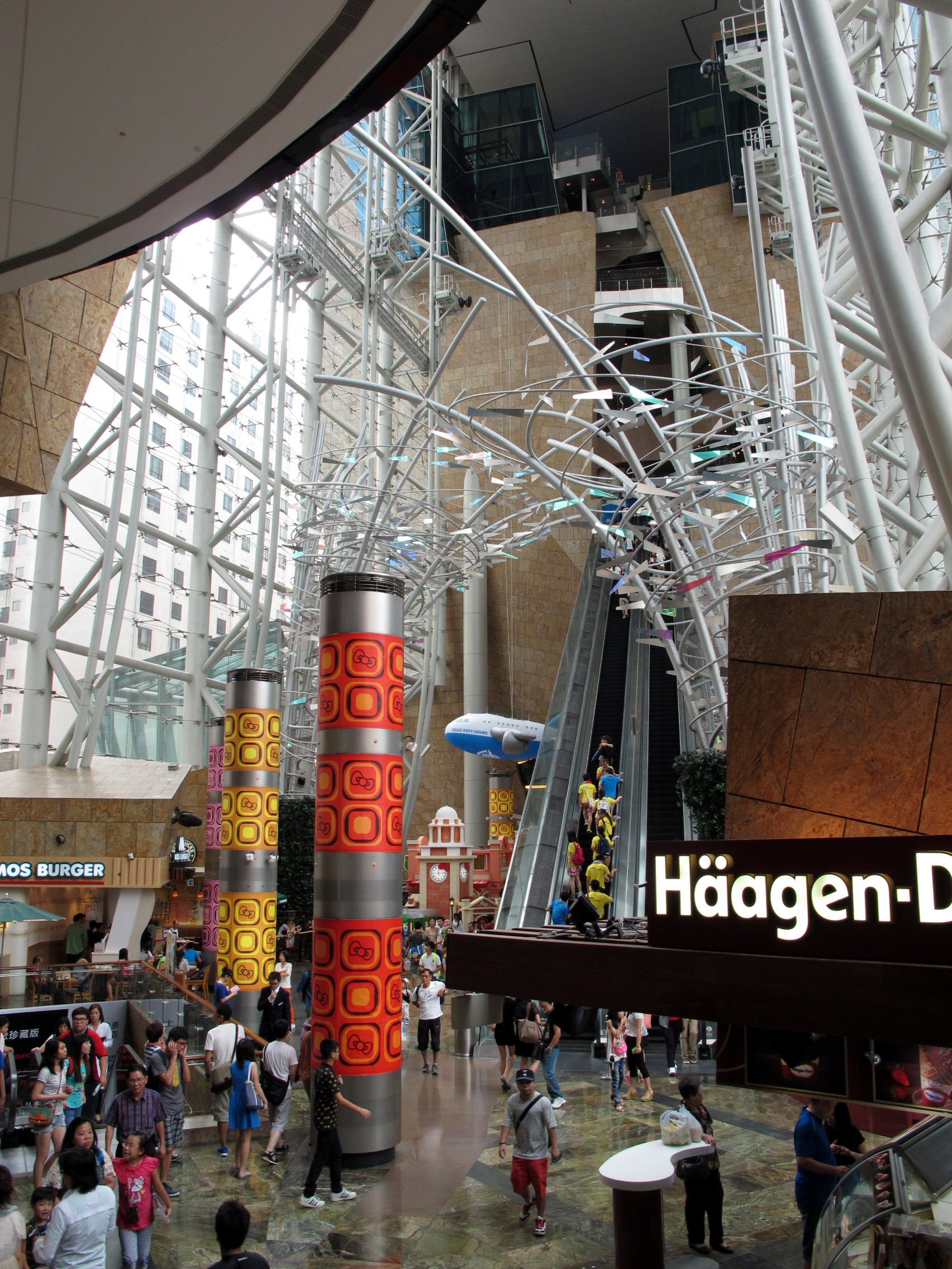 Langham Place Atrium